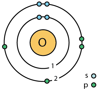 oxygen (O) Bohr model